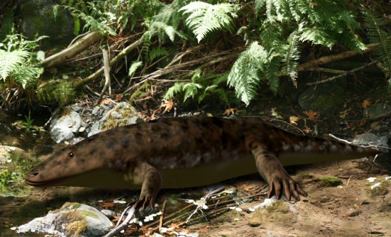 Eryops megacephalus, an early permian Temnospondyli from North America, digital